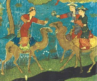 Houris